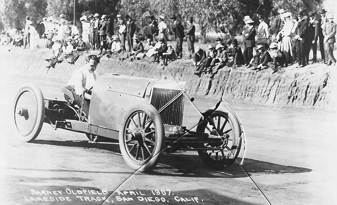 Automobile racing: Barney Oldfield driving the Peerless "Green Dragon"at the Lakeside Track, San Diego, California (7th April 1907)